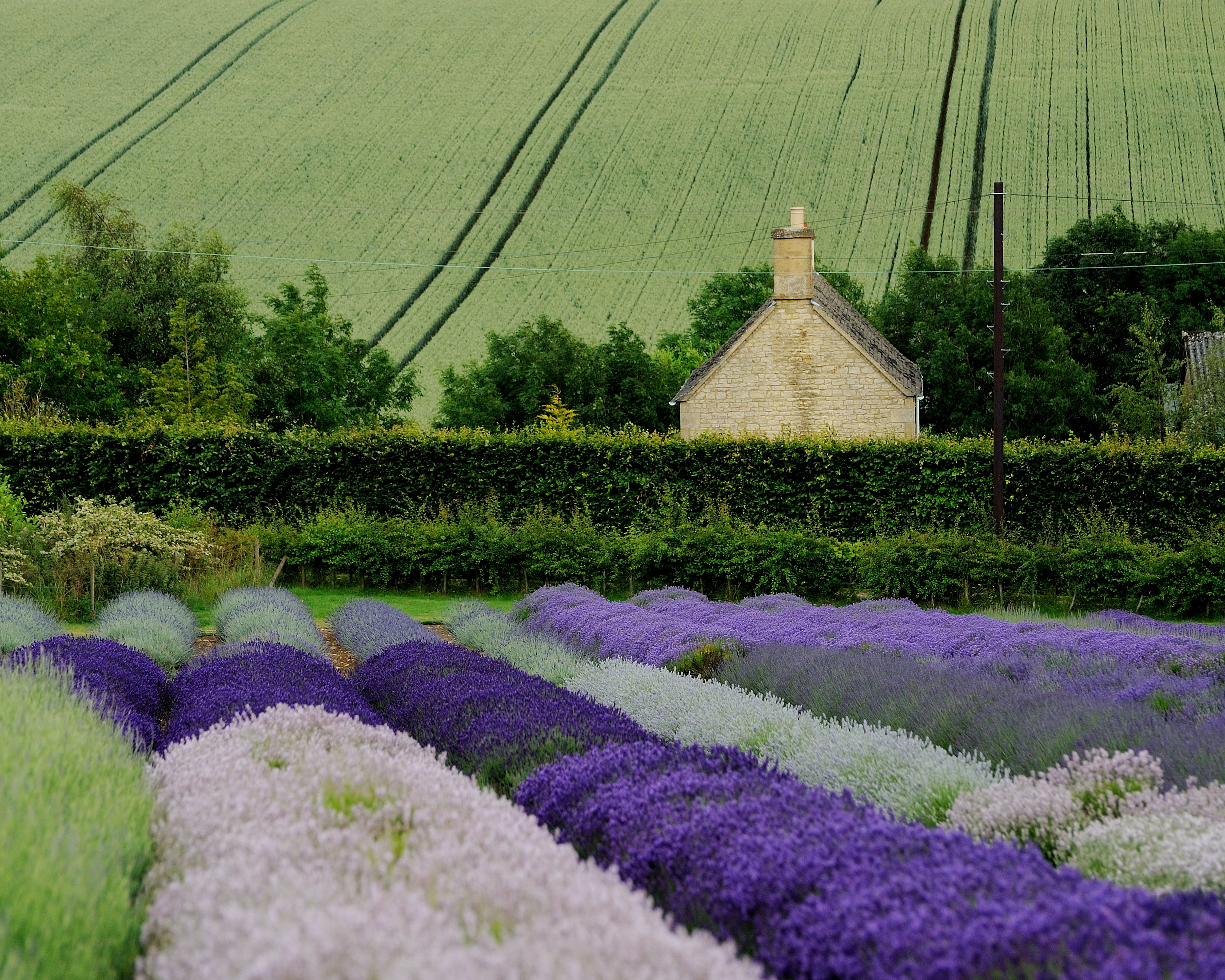 Several varieties of lavender growing near Snowshill. OSGB36 Grid ref: SP 1054434001 52:0:15.642N 1:50:52.123W